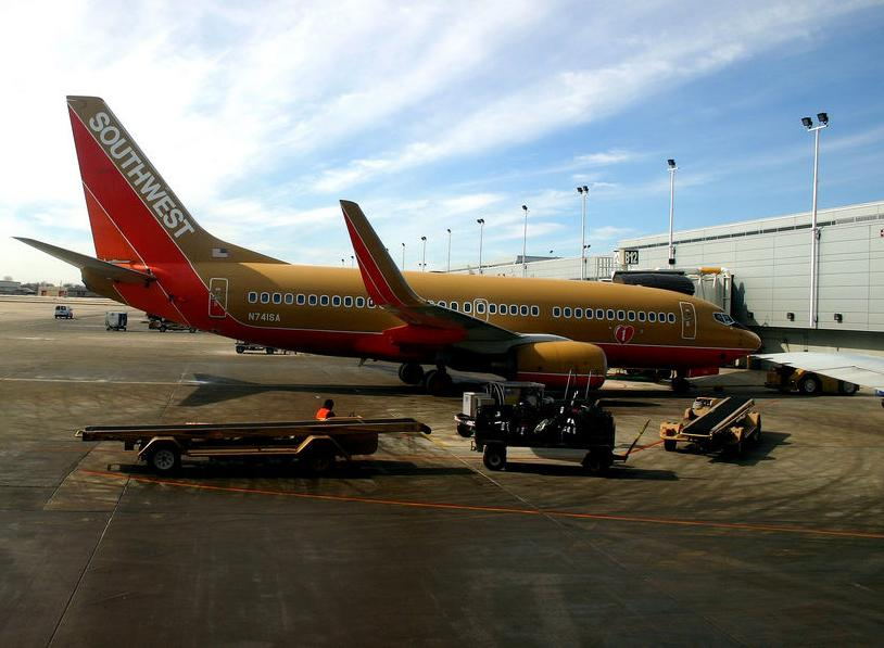 A Southwest Airlines Boeing 737-700 (N741SA) with blended winglets pictured on the tarmac at Midway International Airport, Chicago, Illinois, United States, wearing the airline's desert gold livery.